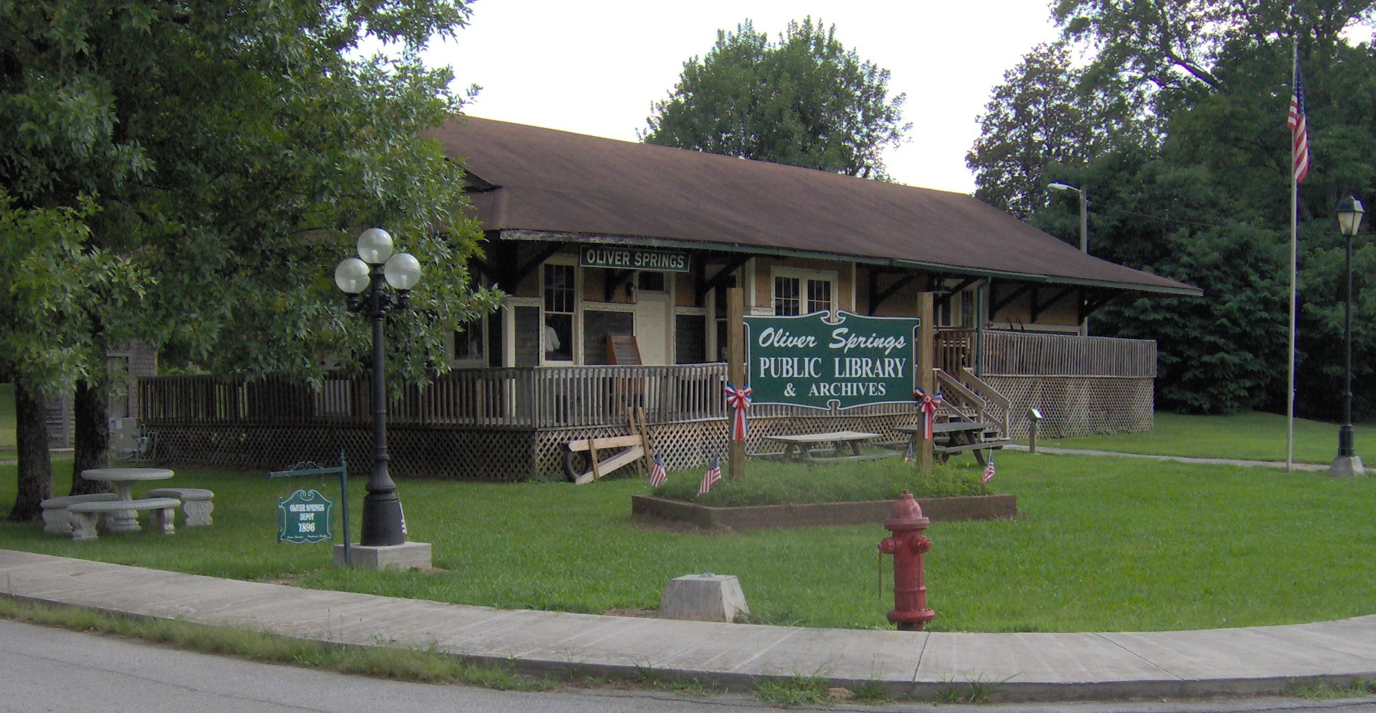 The Oliver Springs Depot in Oliver Springs, Tennessee, in the southeastern United States. The depot, built in 1896, is now home to the Oliver Springs Public Library.